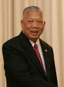 Prime Minister Samak Sundaravej of Thailand, cropped from Image:President_George_W._Bush_with_Prime_Minister_Samak_Sundaravej.jpg